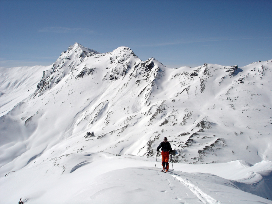 Climb to Piz Toissa, in the background Ziteil and Piz Curvér, Salouf, Grison, Switzerland